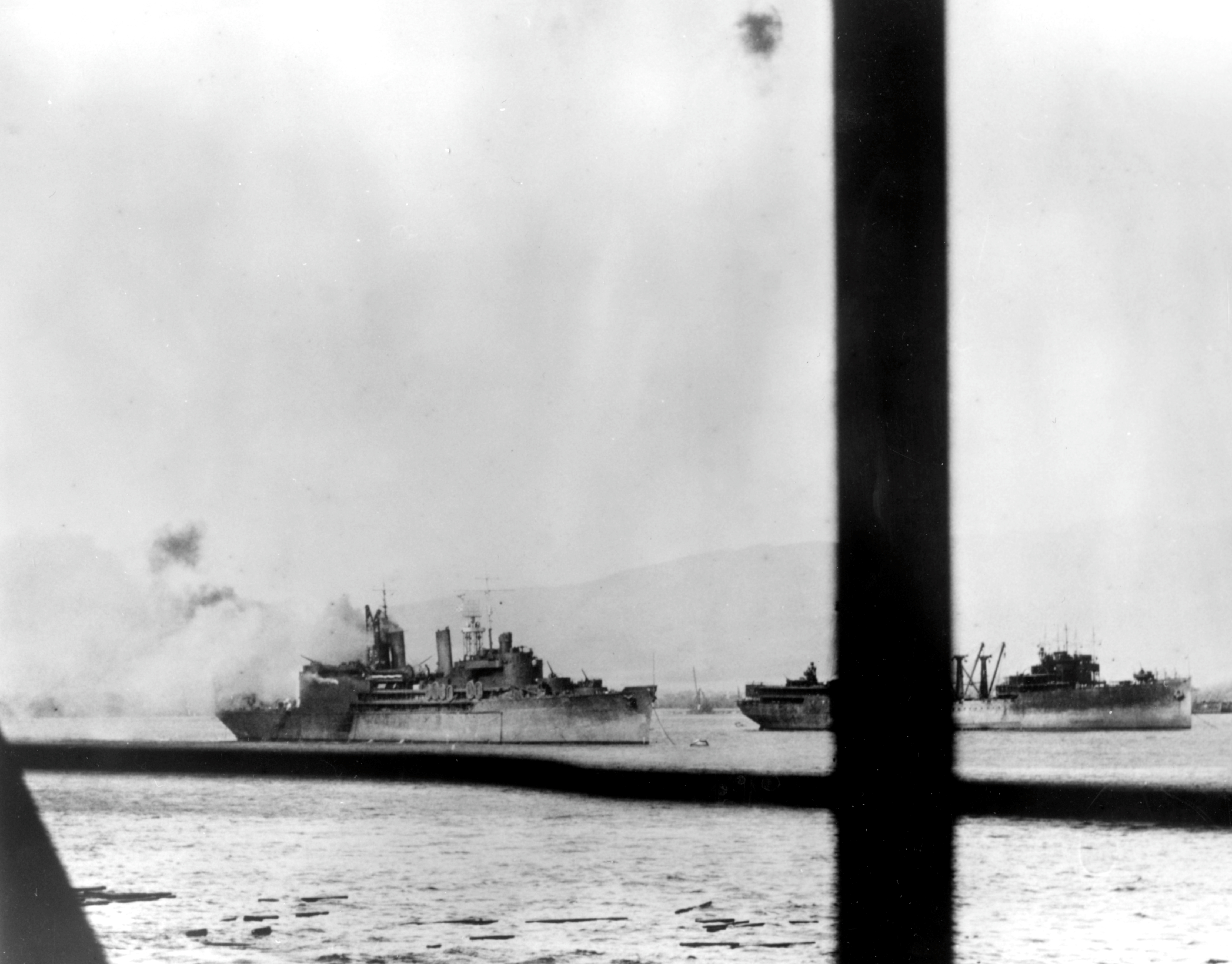 The U.S. Navy seaplane tender USS Curtiss (AV-4) afire on 7 December 1941 at Pearl Harbor, Hawaii (USA), after she was hit by a crashing Japanese Aichi D3A1 ("Val") dive bomber. The rails in the picture belong to USS Tangier (AV-8) from where the photo was taken. The repair ship USS Medusa (AR-1) is at right and is partially obscured by the rails. The timbers floating in the water in the foreground may be from USS Utah (AG-16), which had been sunk at her berth, astern of Tangier. Note the weathered paintwork on Curtiss and Medusa and that Curtiss is already equipped with an CXAM air search radar.